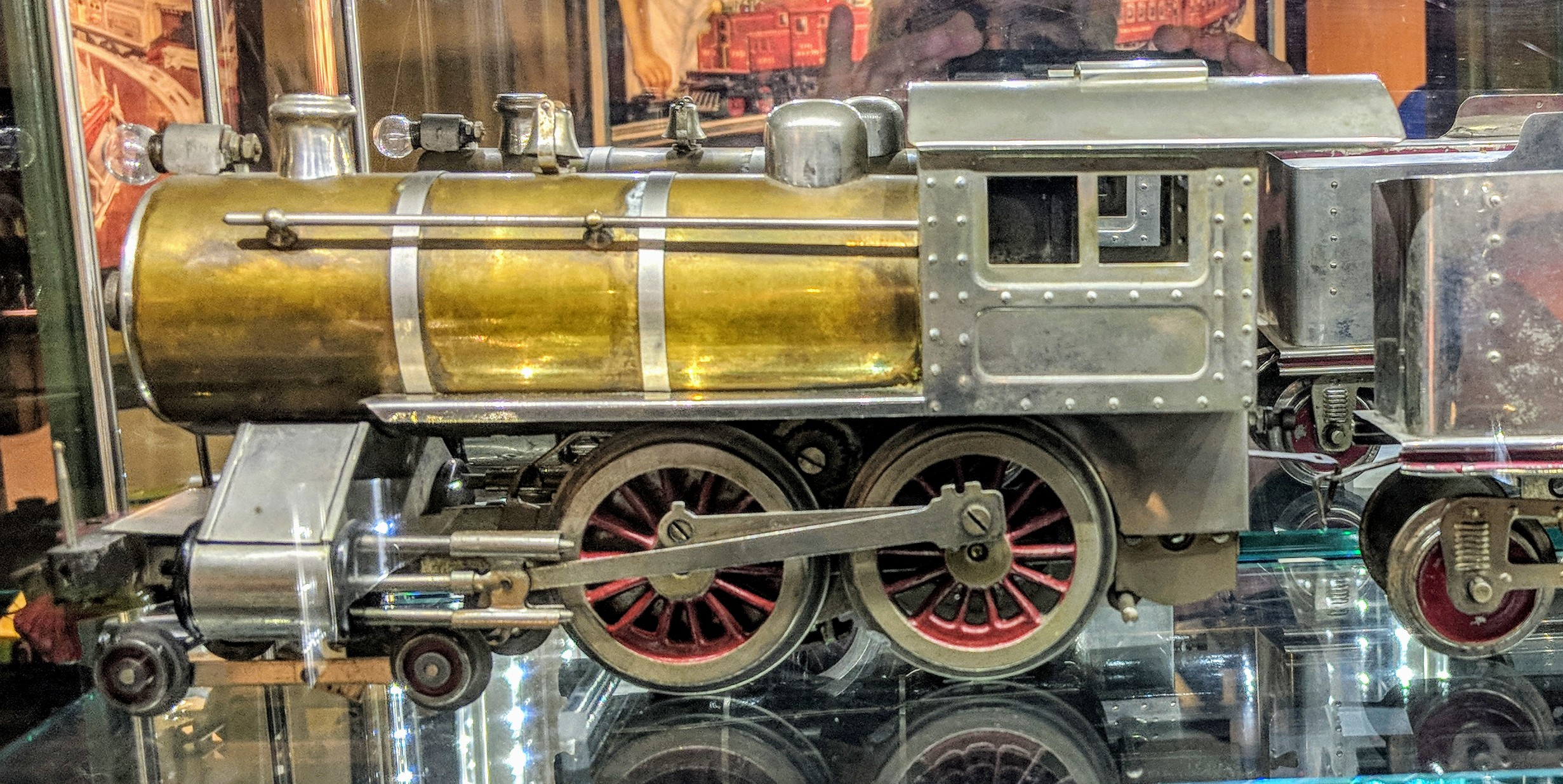 A Lionel model locomotive, on display at the California State Railroad Museum. Photo by Jim Heaphy.